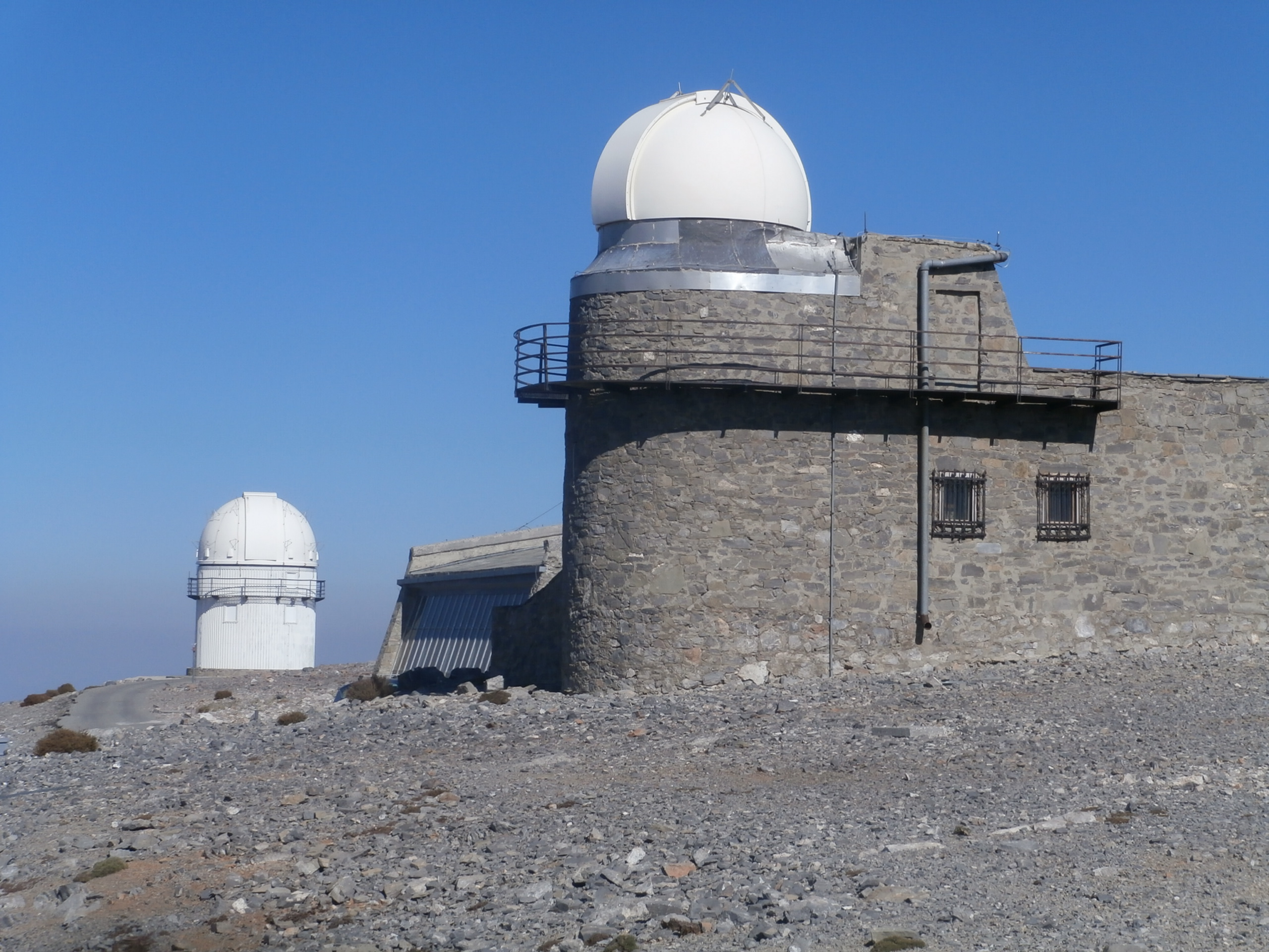 From left to right, the 1.3 m telescope building, the guest room and the 0.3 m telescope building of Skinakas observatory, Crete